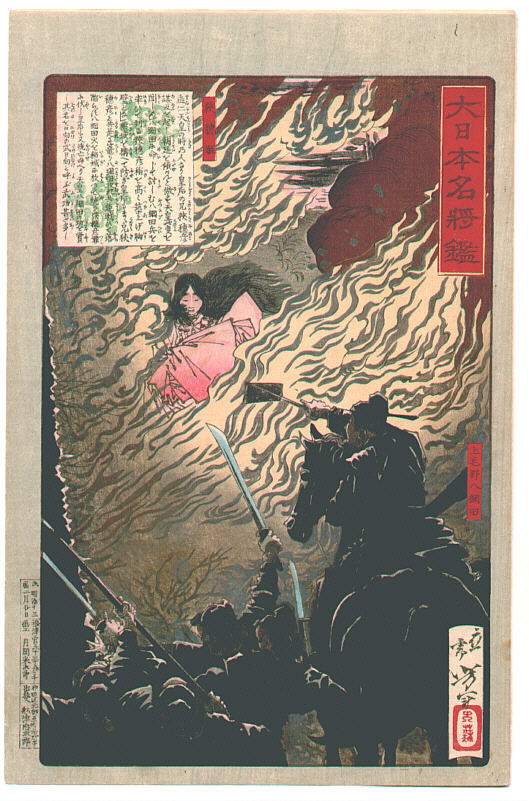 Princess Saohime dies in her brother's castle.Saohime was the wife of Emperor Suinin.